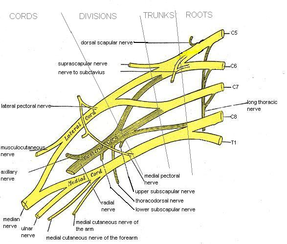 Anterior view of right brachial plexus. Illustration. Modified by Mattopaedia on 02-Jan-2006 from the 1918 Edition of Gray's Anatomy. Original unmodified image sourced from